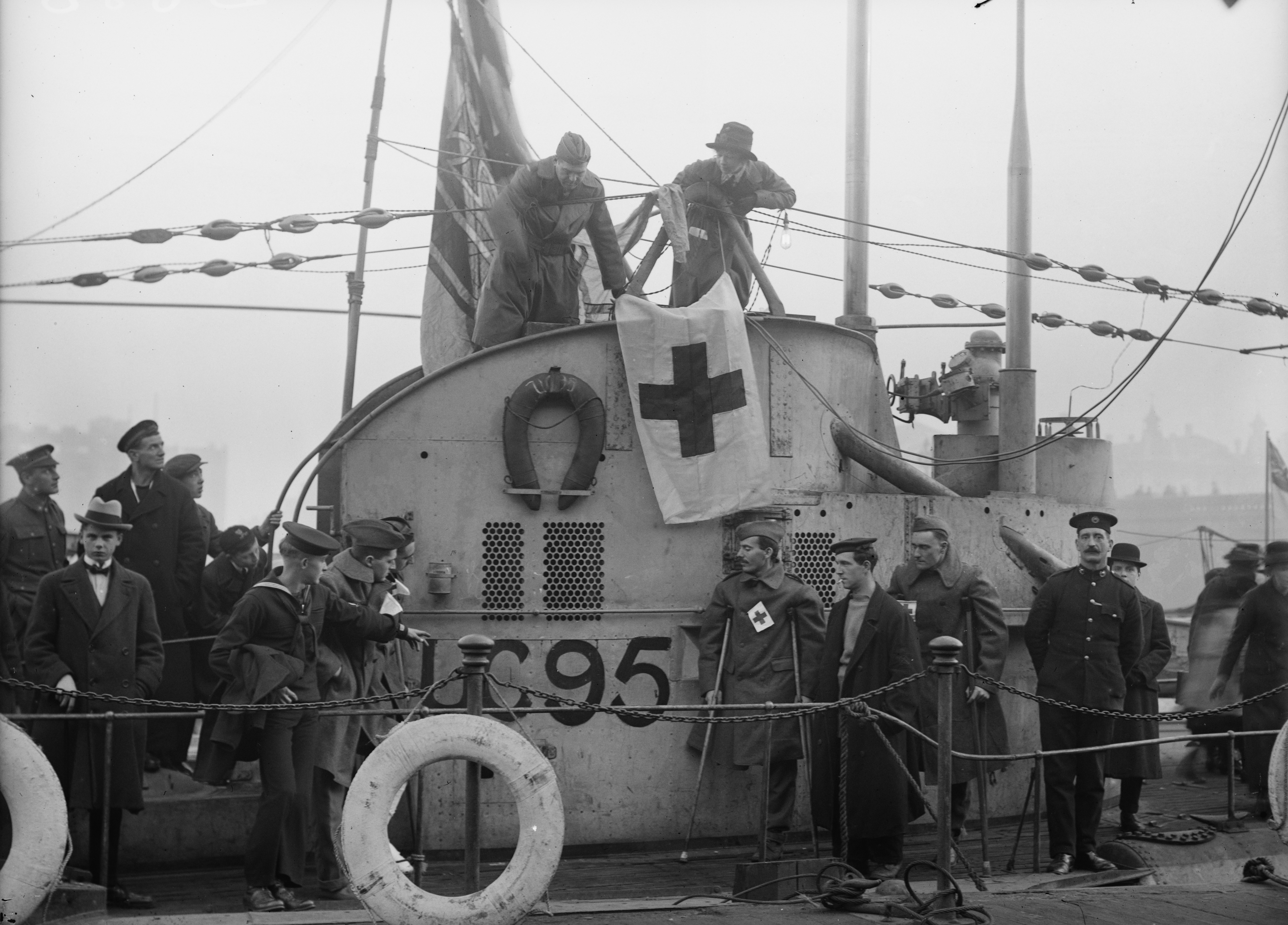 Title: [Recovering U.S. Soldiers taken to see sights around London. Captured German sub UC-95 on display]